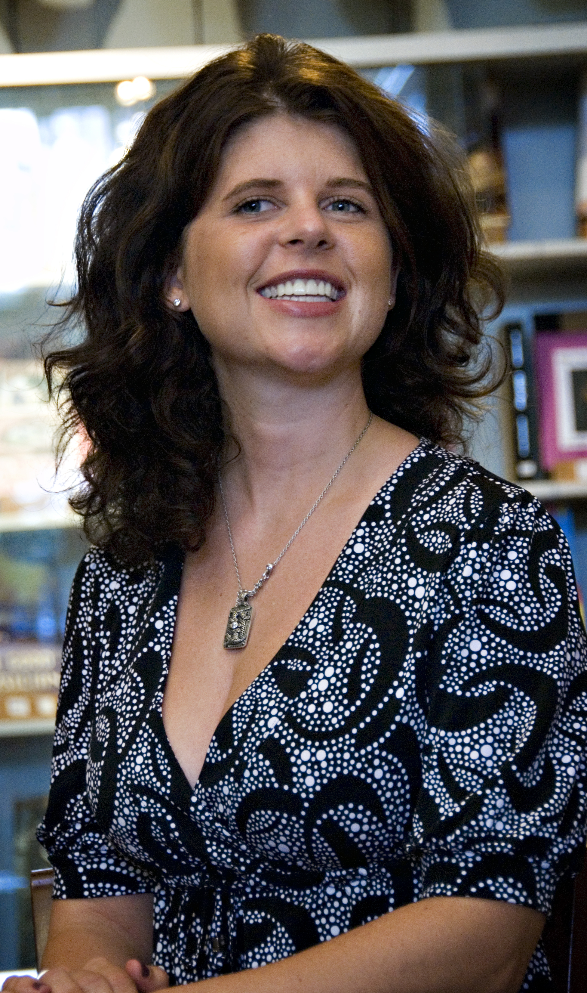 Author Theresa Schwegel at an appearance at "M" is for Mystery in San Mateo, CA